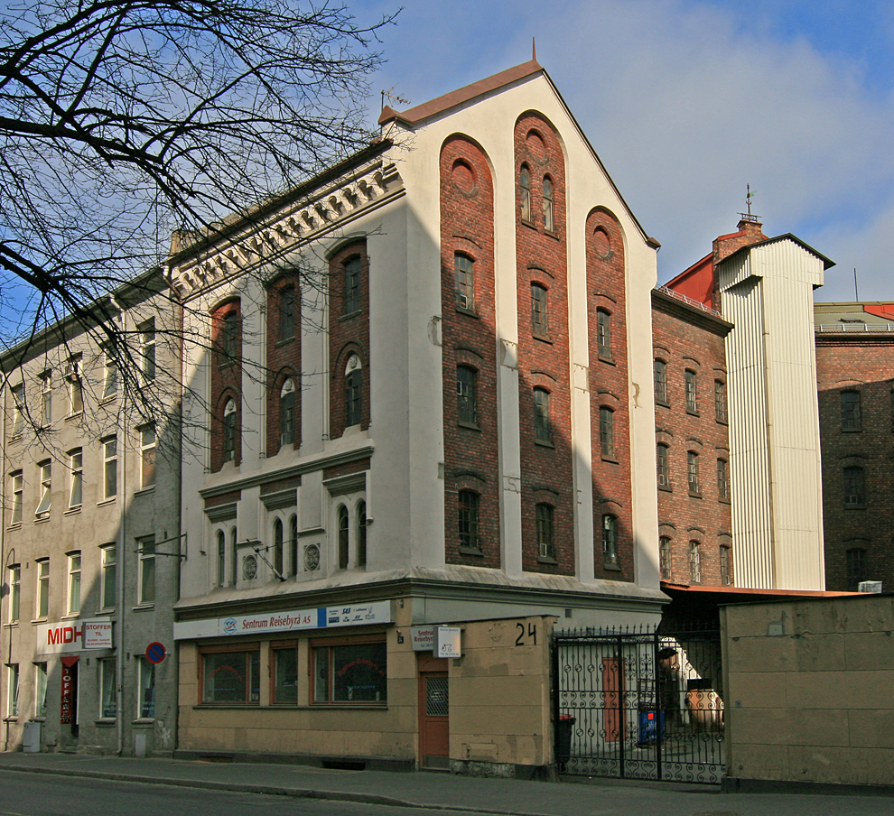 Stenersgata 24, Oslo. Built 1874. Architect: Paul Due and Bernhard Steckmest. Built as grain and flour warehouse.